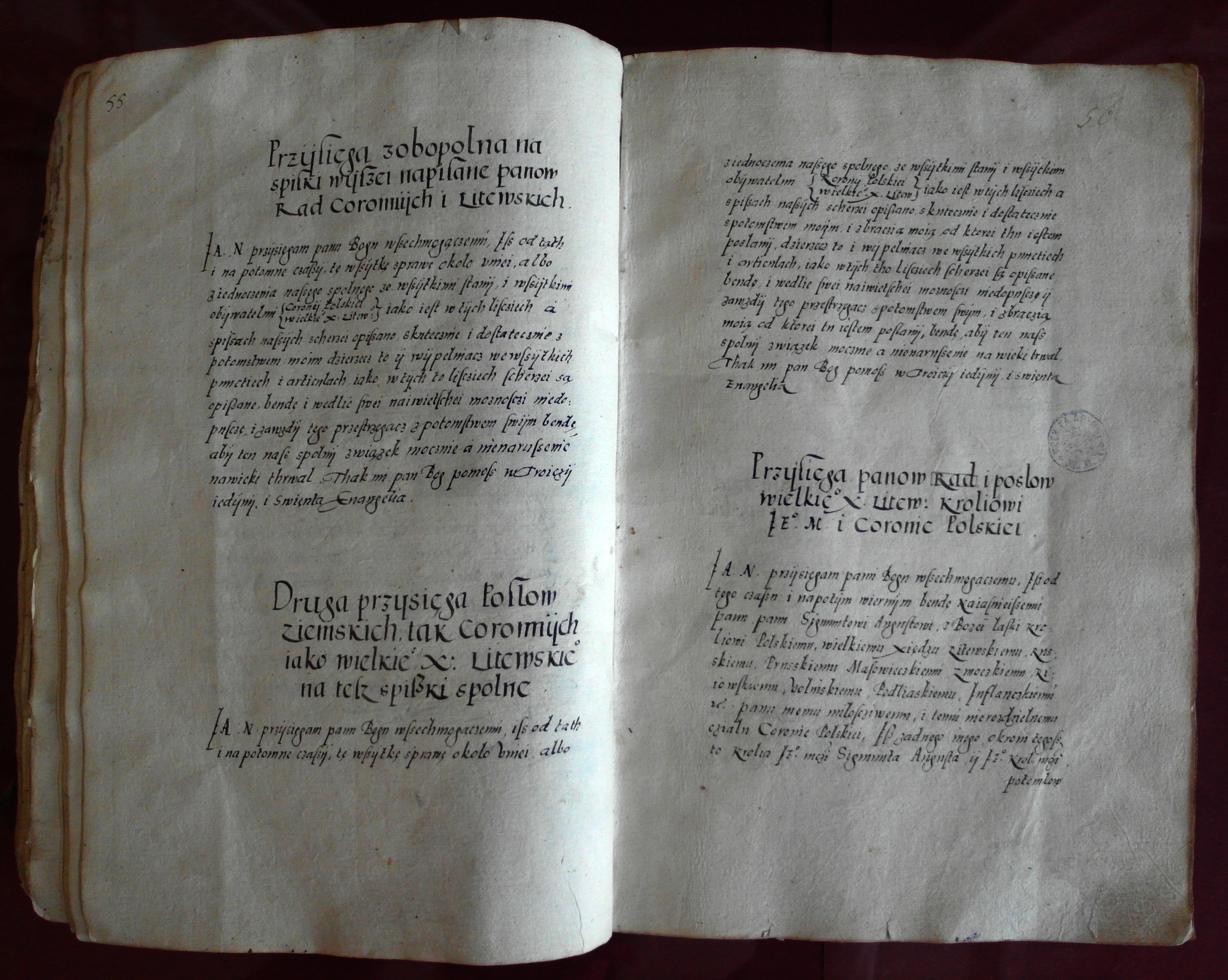 Wording of the Union pledge of lords councellors of the Crown and Lithuania 1569